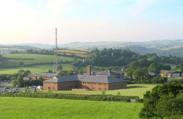 Dyfed-Powys Police HQ, Llangunnor, Carmarthen. The building with the white garage doors on the far right has a heli-pad in front of it. Dyfed-Powys is quite a large area. The Police and Fire Brigade still recognise Dyfed as an administrative area, despite it having been broken up into Carmarthenshire, Ceredigion and Pembrokeshire.